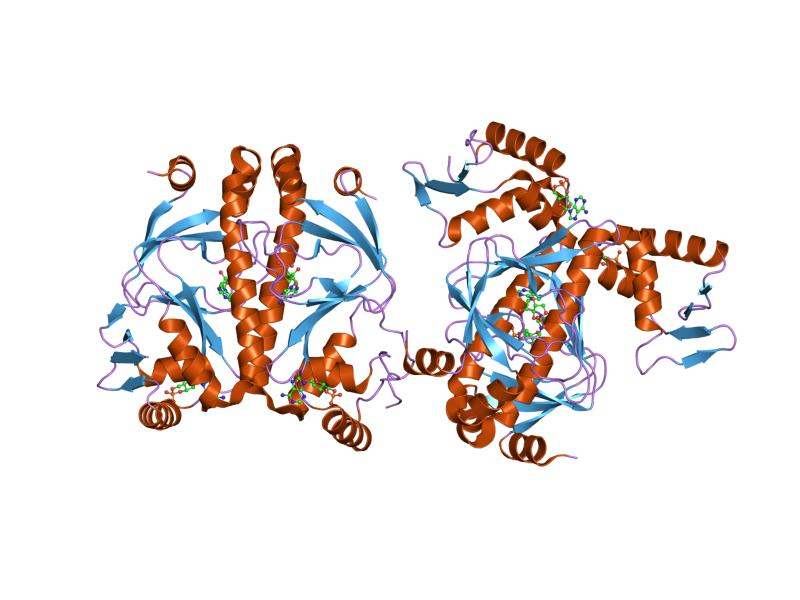 Cartoon representation of the molecular structure of protein registered with 2gzw code.